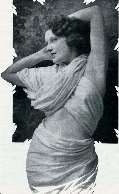 Memphis Russell (captioned as Mem Russell) in the Broadway musical revue "Tickle Me" at the Selwyn Theatre, on page 5 of the October 1920 The Tatler.